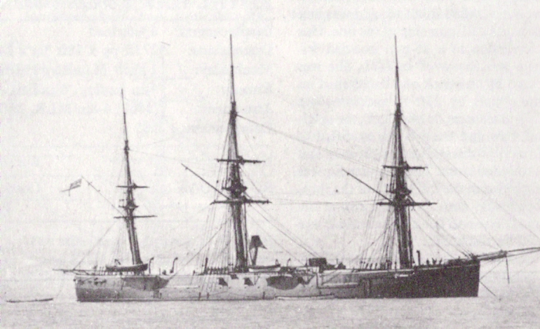 British central battery ironclad corvette HMS Favorite with her funnel lowered